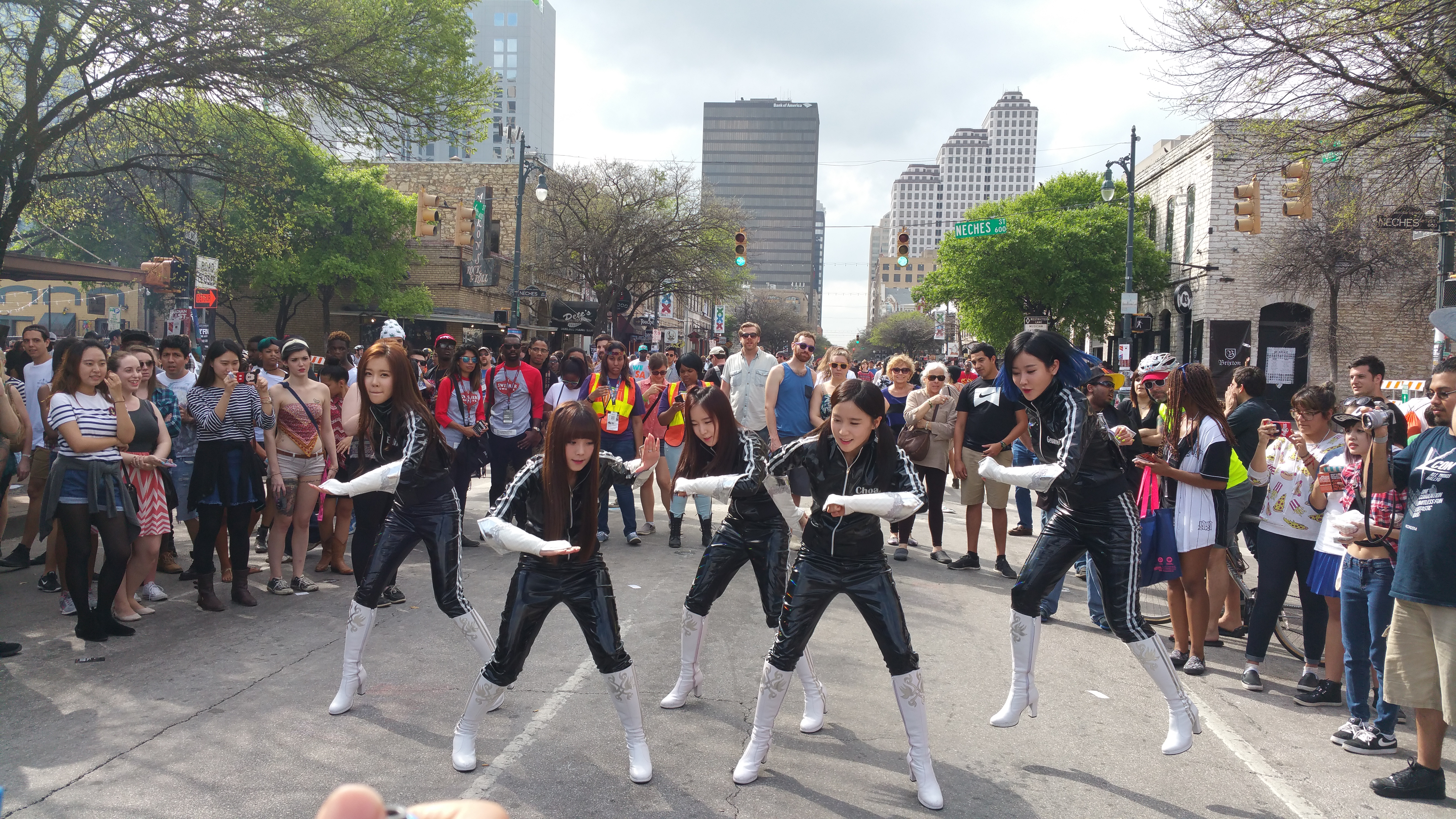 Crayon Pop filming on the streets of Austin at SXSW 2015, KPopNightOut.